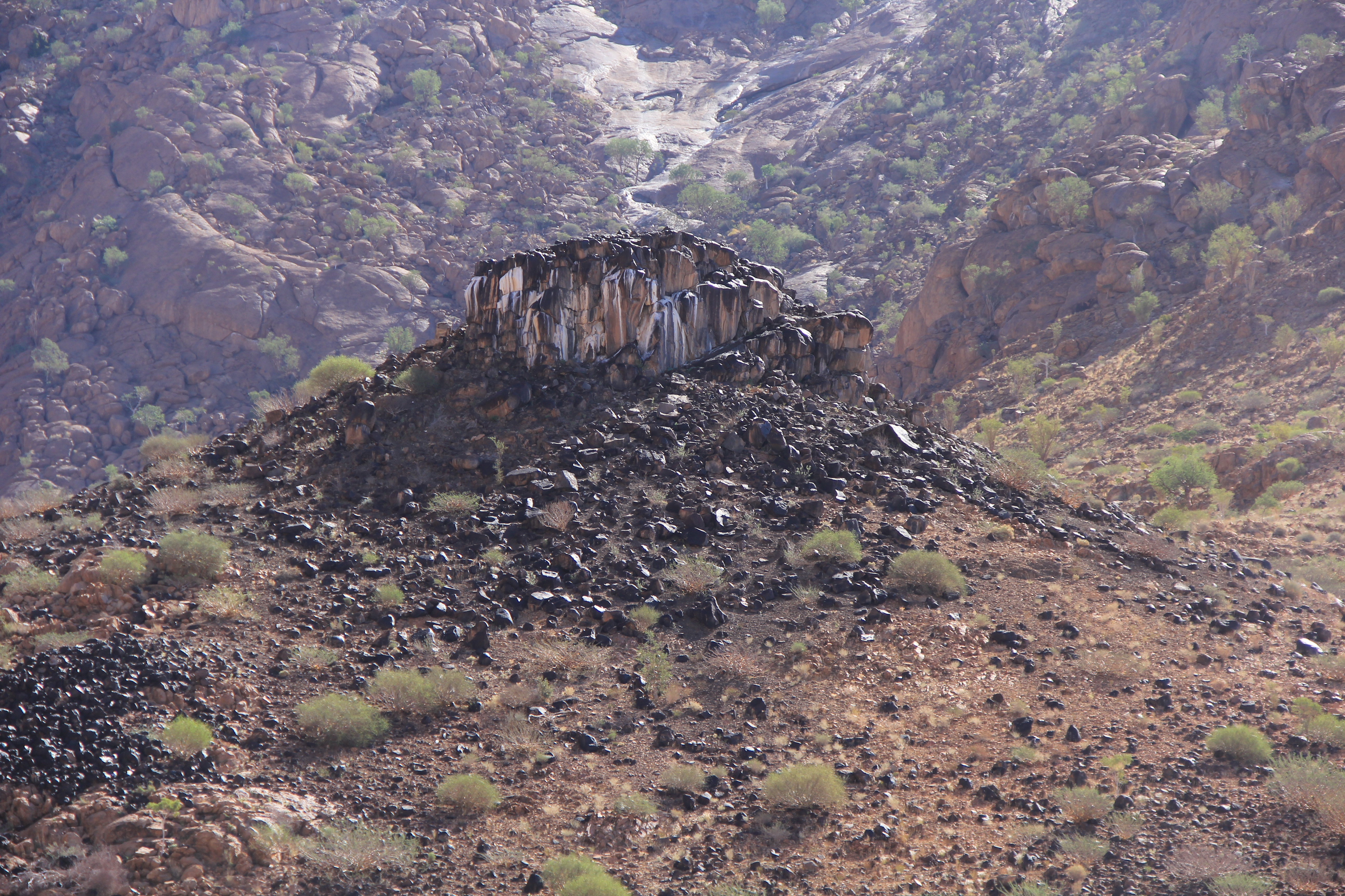 Doleritic dike, entrance of Tsisab gorge, Brandberg, Namibia